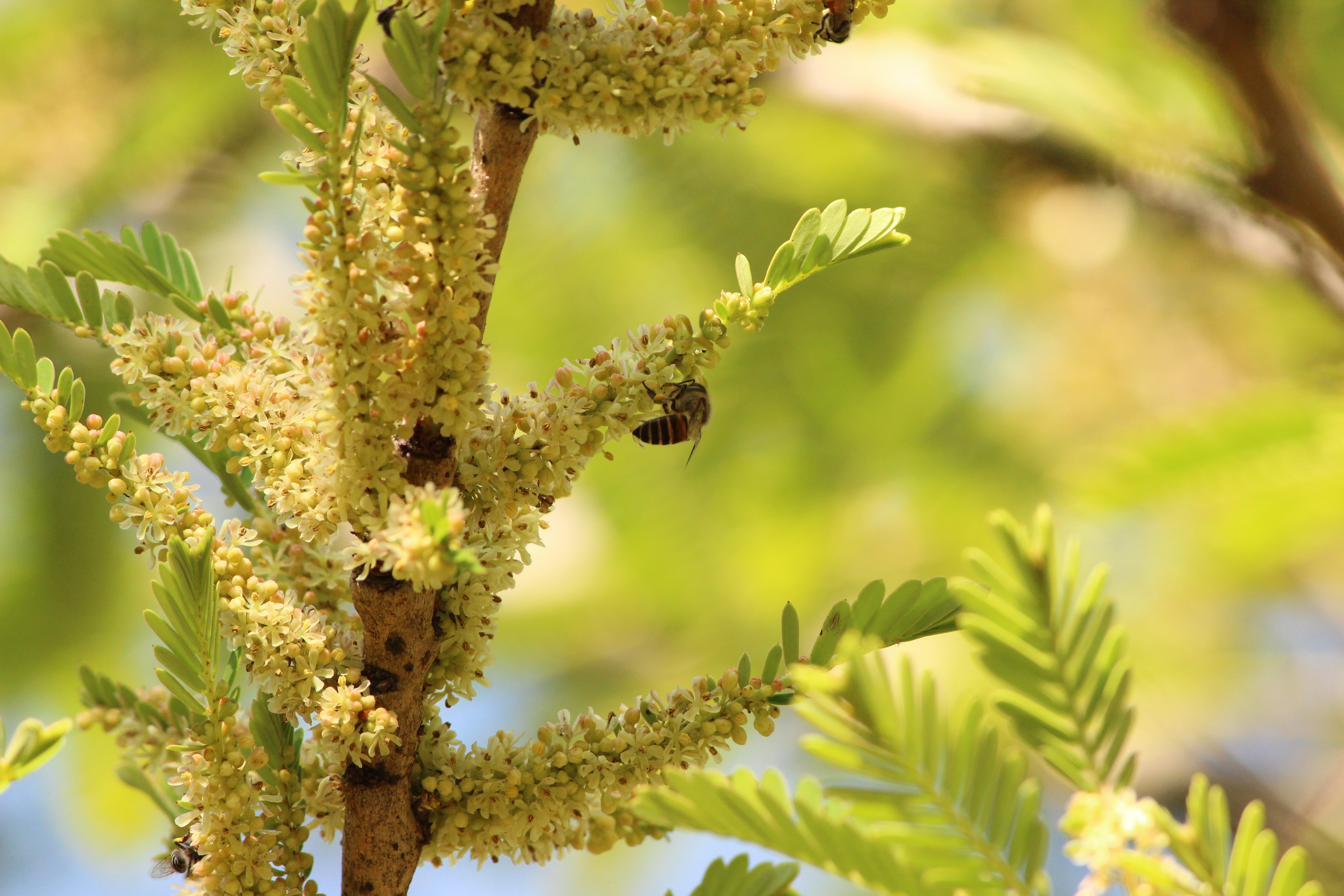 Goseberry flowering from bangalore